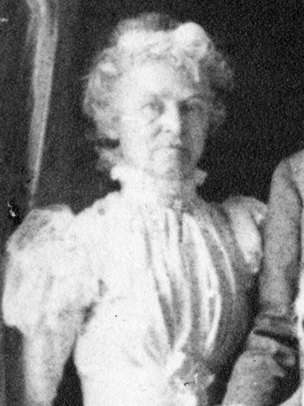 Ellen Powell Thompson, from the last Powell family group photo taken in Topeka, Kansas on November 10, 1900 after the funeral of sister, Martha Powell Davis (wife of Congressman, John Davis).